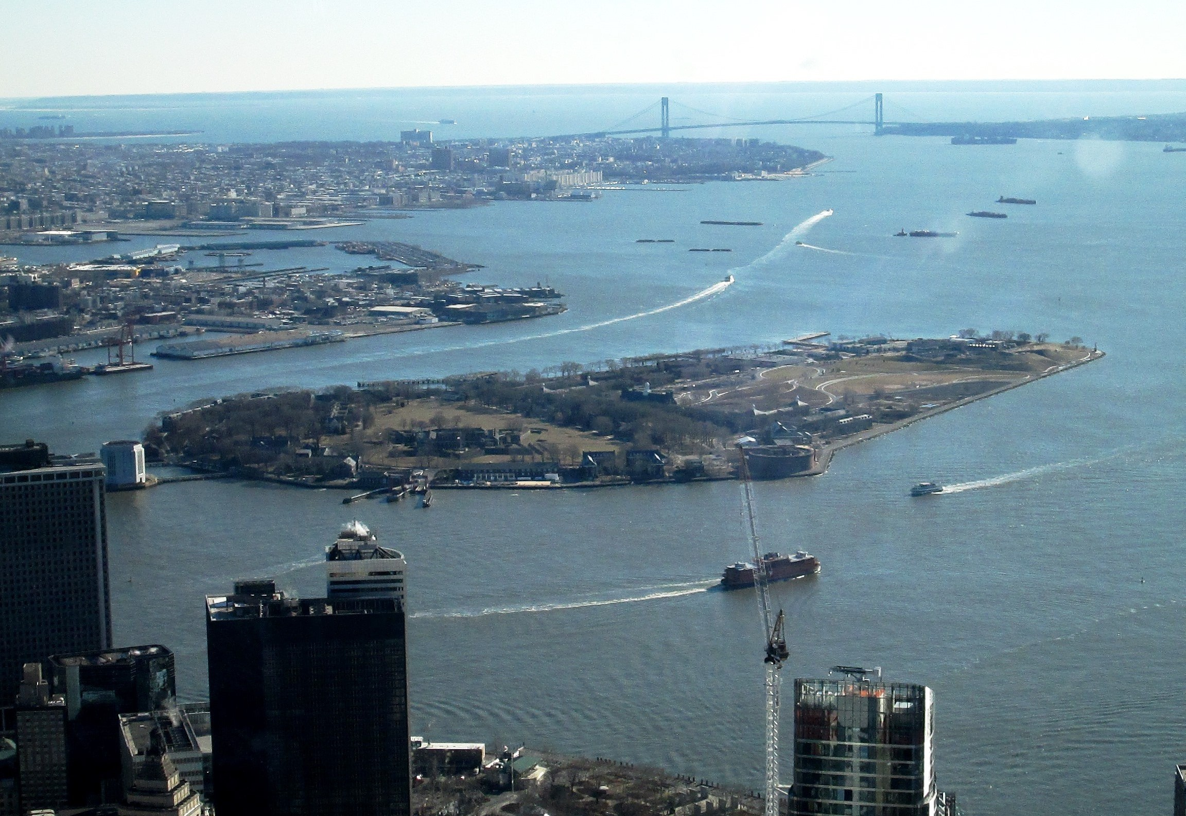 A view south-southeast of Governors Island from the One World Observatory at One World Trade Center, Manhattan, New York City. Off the tip of the island, at the left, can be seen the white ventilation building for the Brooklyn-Battery Tunnel. Buttermilk Channel runs between the island and Brooklyn, and Gowanus Bay can be seen beyond that on the left. In the background, can be seen the Verrazano-Narrows Bridge across the Narrows between Staten Island and Brooklyn, with Lower New York Bay and the Atlantic Ocean beyond that.